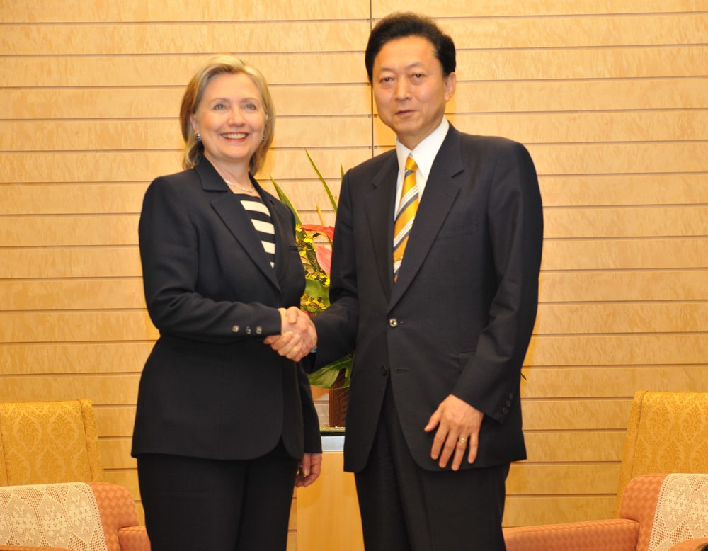 Hillary Rodham Clinton, Secretary of State, met Yukio Hatoyama, Prime Minister, at the Prime Minister's Official Residence in Chiyoda Ward, Tōkyō Metropolis on May 21, 2010.